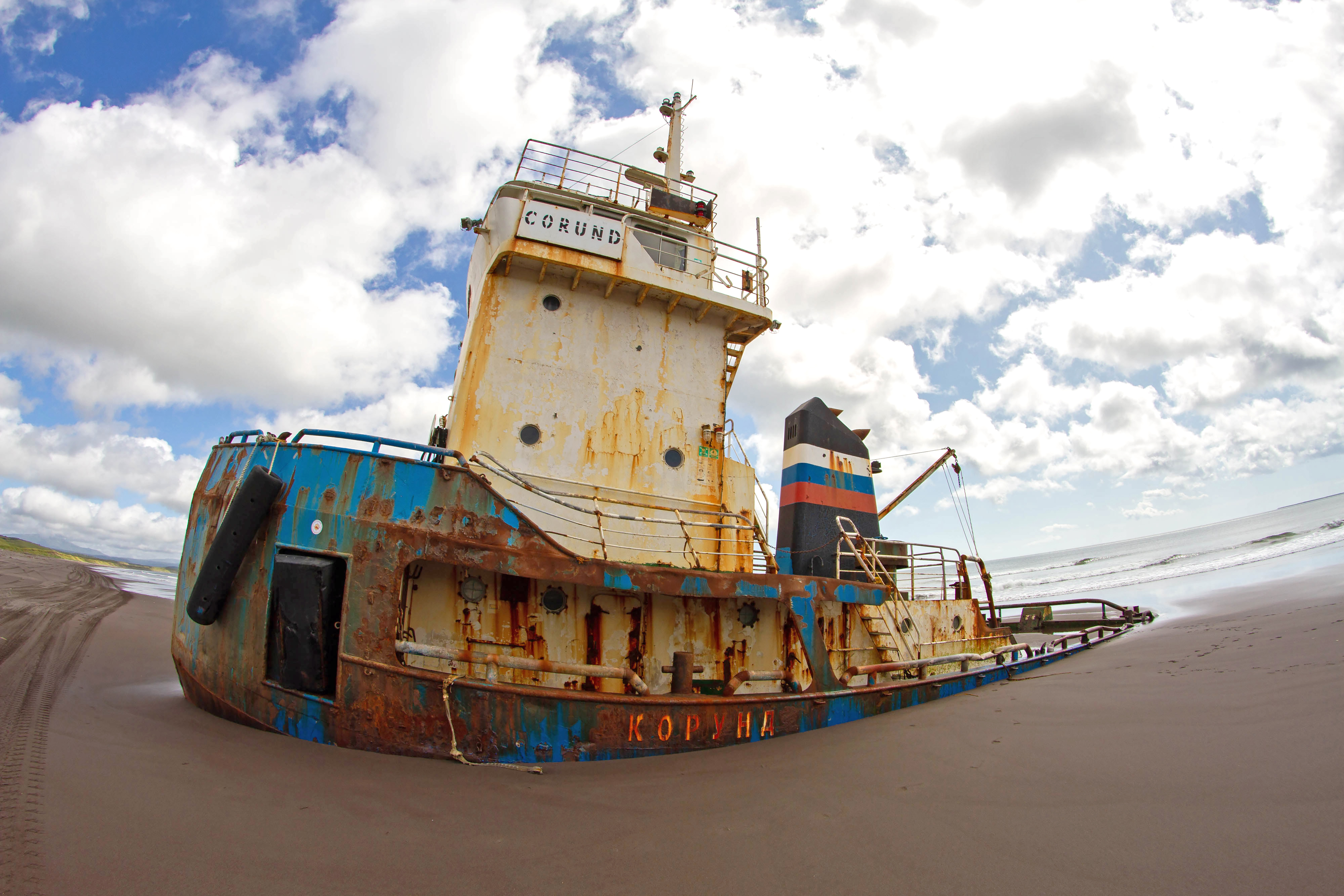 Iturup Island nature, fall 2019